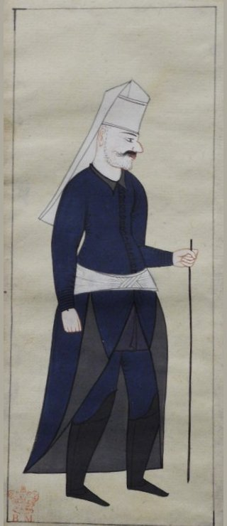 Ottoman Turkish Illustrations from Peter Mundy's Album, "A briefe relation of the Turckes, their kings, Emperors, or Grandsigneurs, their conquests, religion, customes, habbits, etc" - Istanbul 1618